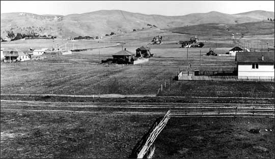 Image of the landscape of what is now Richmond Heights, a neighborhood in Richmond, California, in addition to East Richmond Heights, The Berkeley Hills Range, Wildcat Canyon Regional Park etc